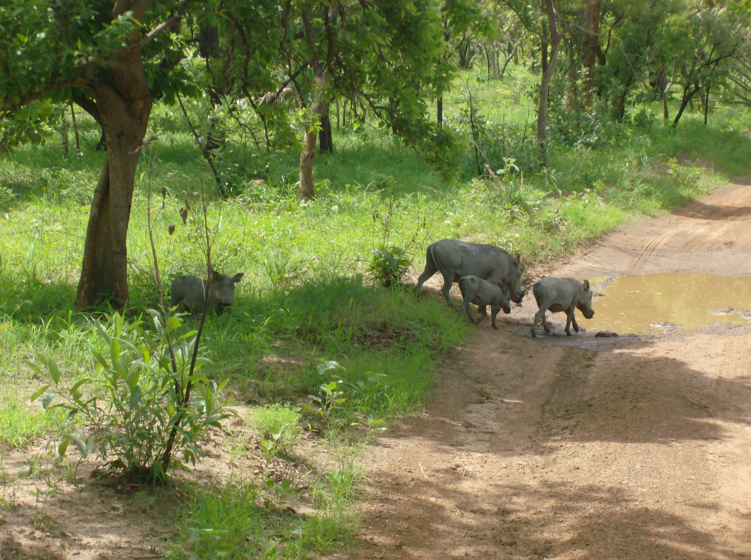 Date of Inscription: 1981 Criteria: (x) Property : 913000.0000 ha Eastern Senegal and Upper Casamance regions N13 4 0.012 W12 43 0.012 Ref: 153 Inscription Year on the List of World Heritage in Danger: 2007 Brief Description [Niokolo-Koba National Park] Located in a well-watered area along the banks of the Gambia river, the gallery forests and savannahs of Niokolo-Koba National Park have a very rich fauna, among them Derby elands (largest of the antelopes), chimpanzees, lions, leopards and a large population of elephants, as well as many birds, reptiles and amphibians.